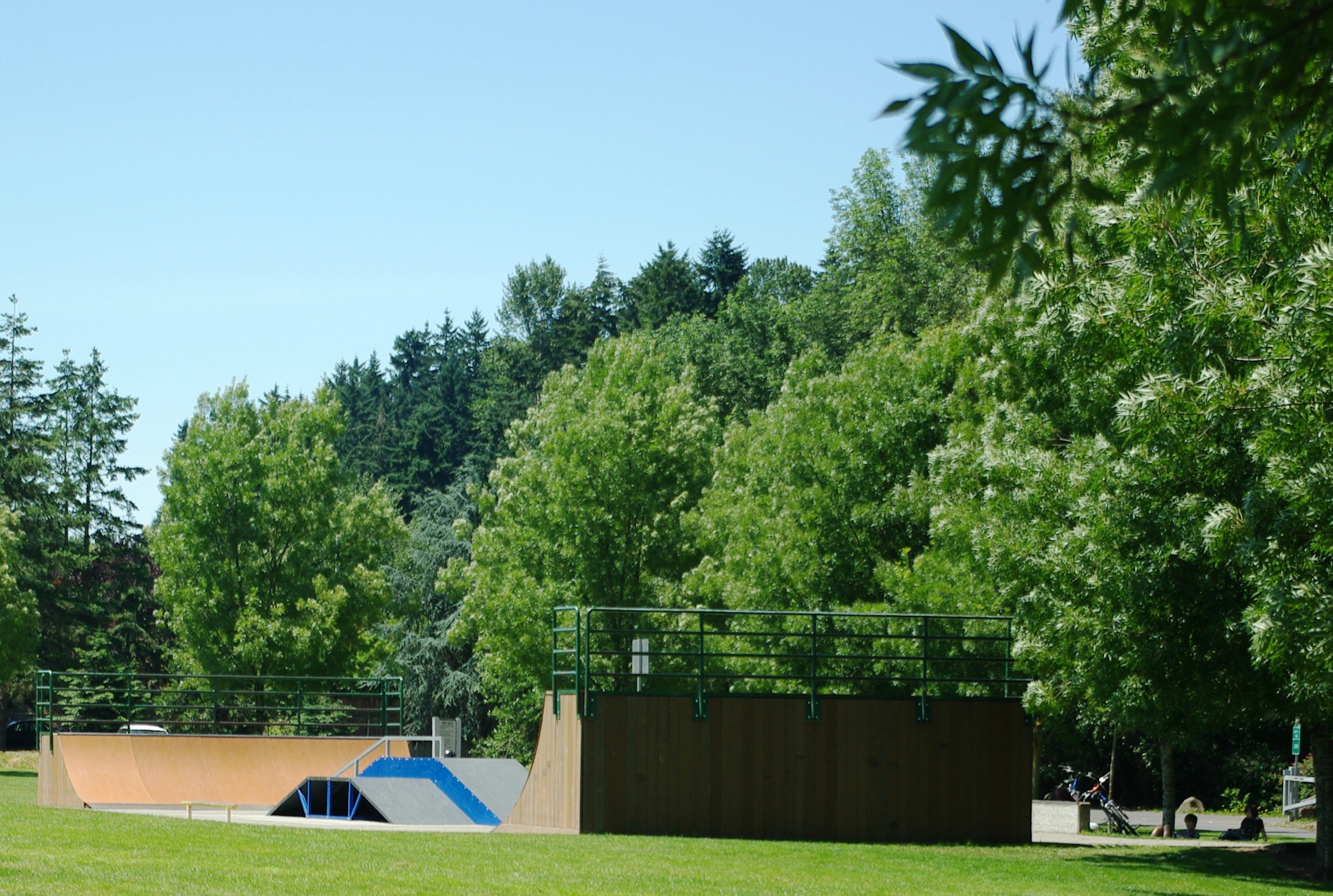 Skatepark at Wilsonville Memorial Park in Wilsonville, Oregon